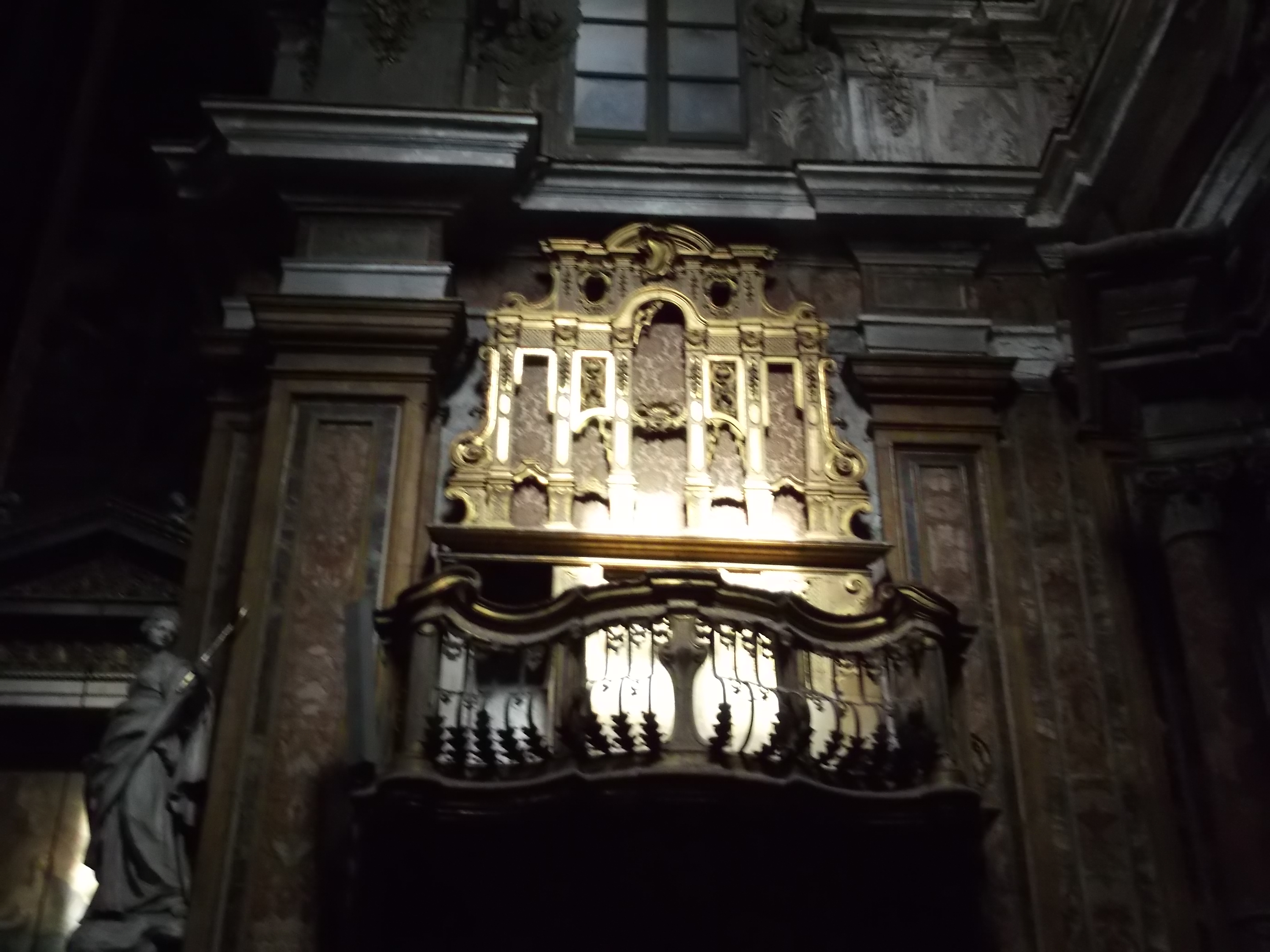 Palermo. San Matteo al Cassaro - interno